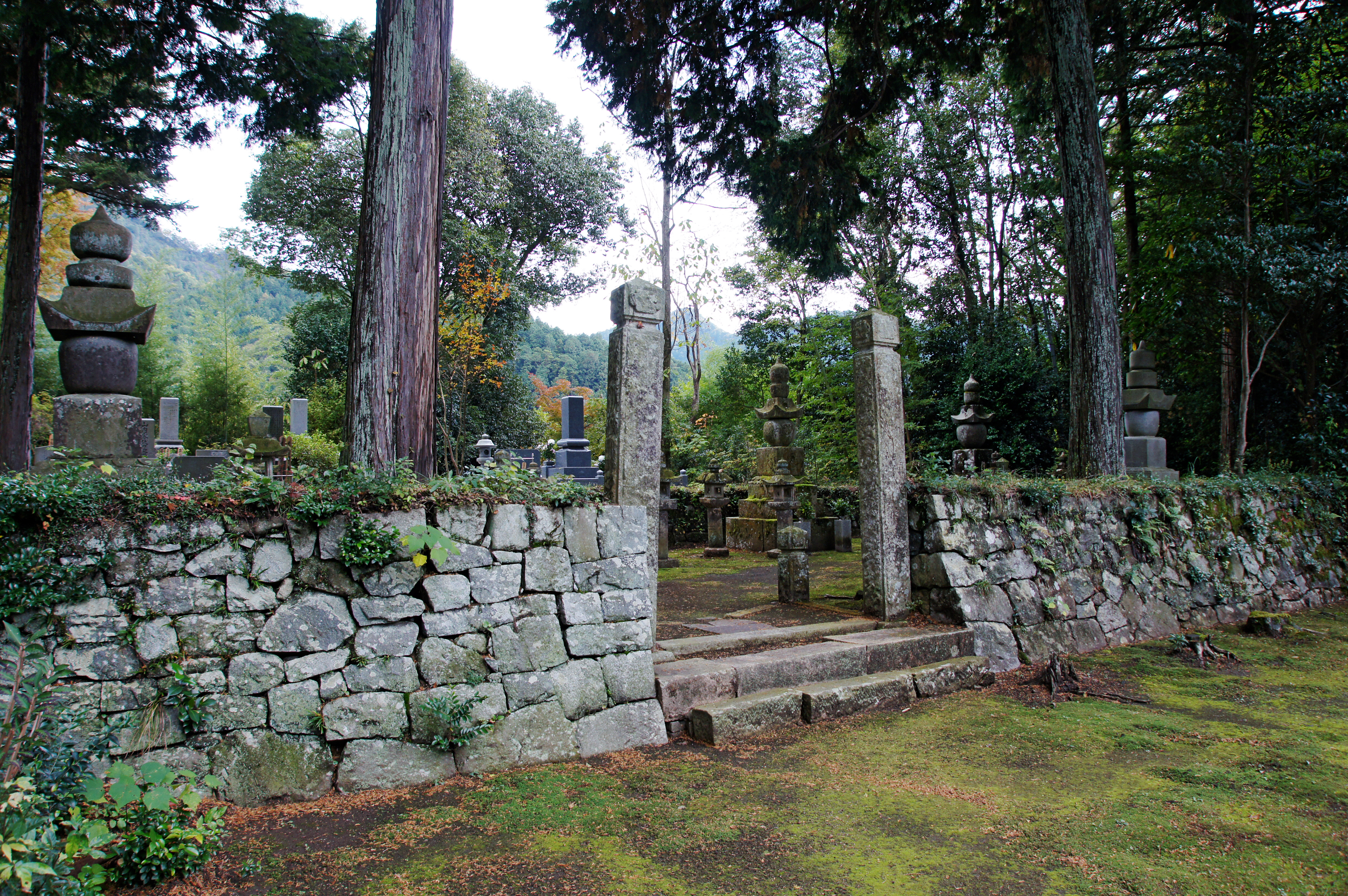 Tesshin-ji in Kamikawa, Hyogo prefecture, Japan